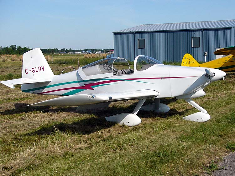 An RV-6A (C-GLRV) – the nose wheel equipped version of the RV-6. This aircraft has the later sliding canopy. I took this photo